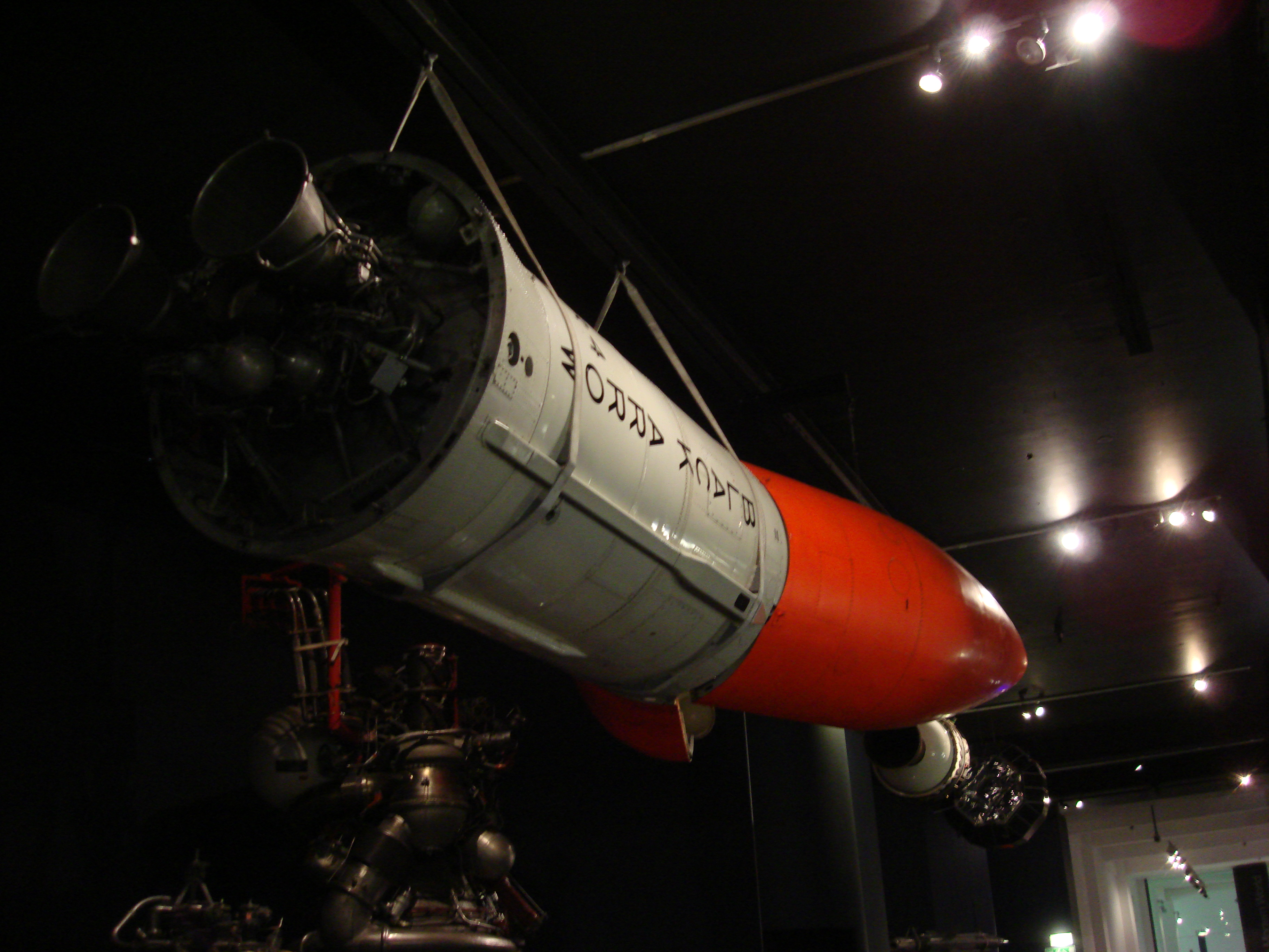 Black Arrow carrier rocket at the Science Museum (London)